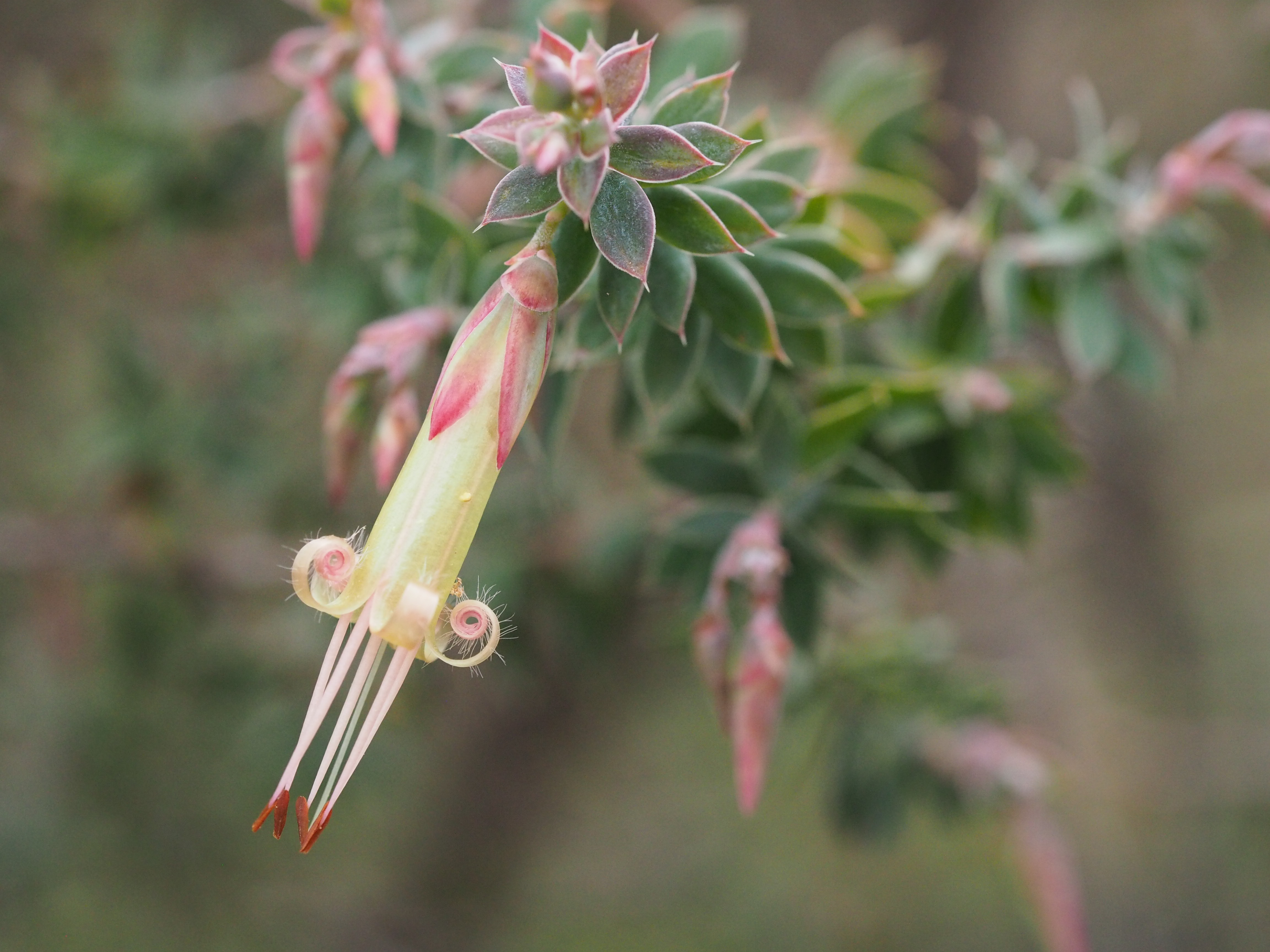 Styphelia perileuca growing in Cathedral Rocks National Park